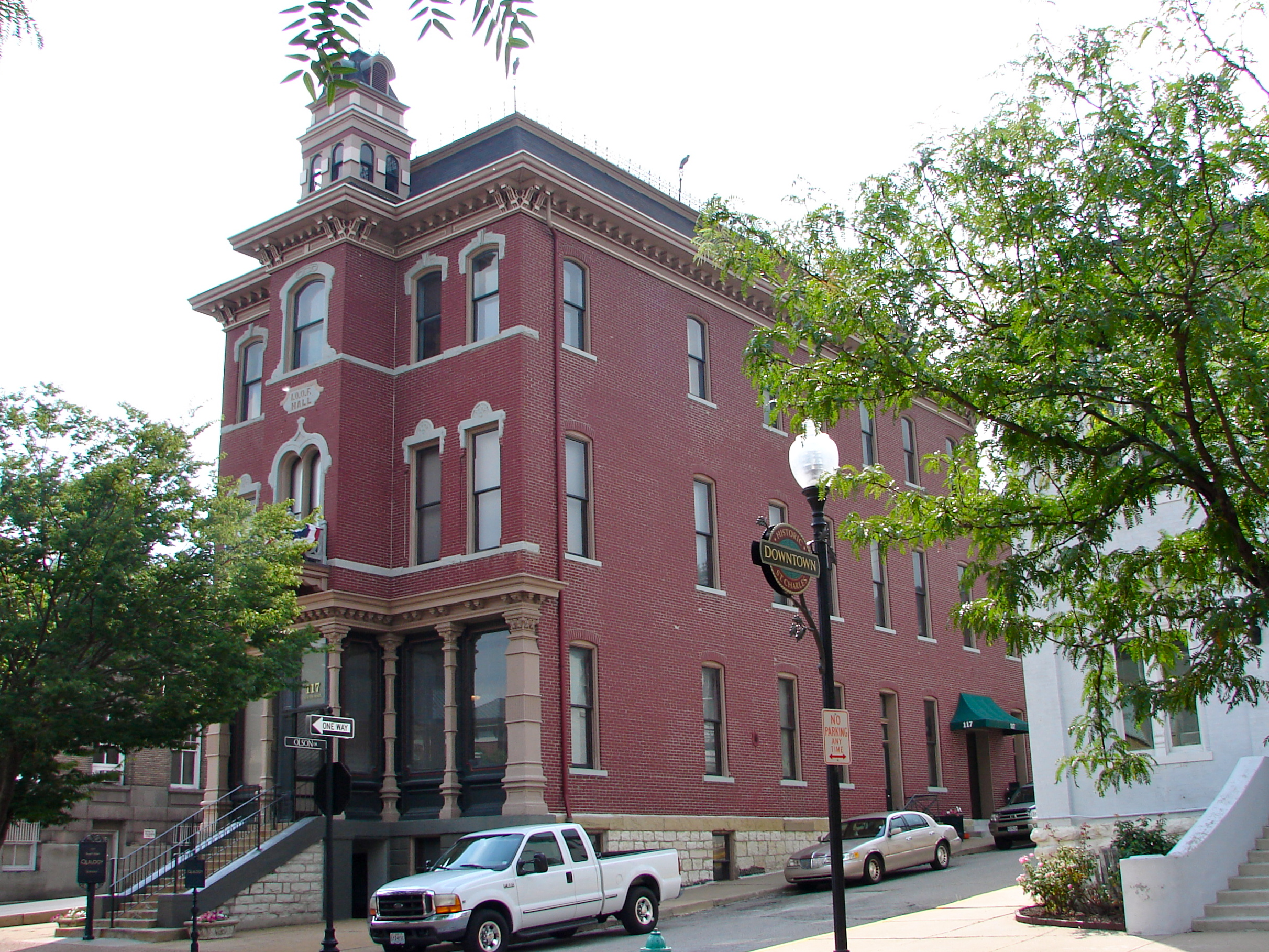 St. Charles Odd Fellows Hall on the NRHP since April 13, 1987. At 117 S. Main, St. Charles, Missouri. In the main Historic District in St. Charles, across from the BPOE